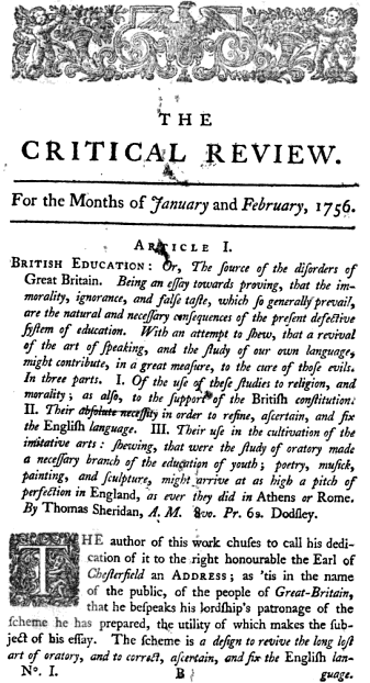 Critical Review, no.1 (London: R. Baldwin, 1756)